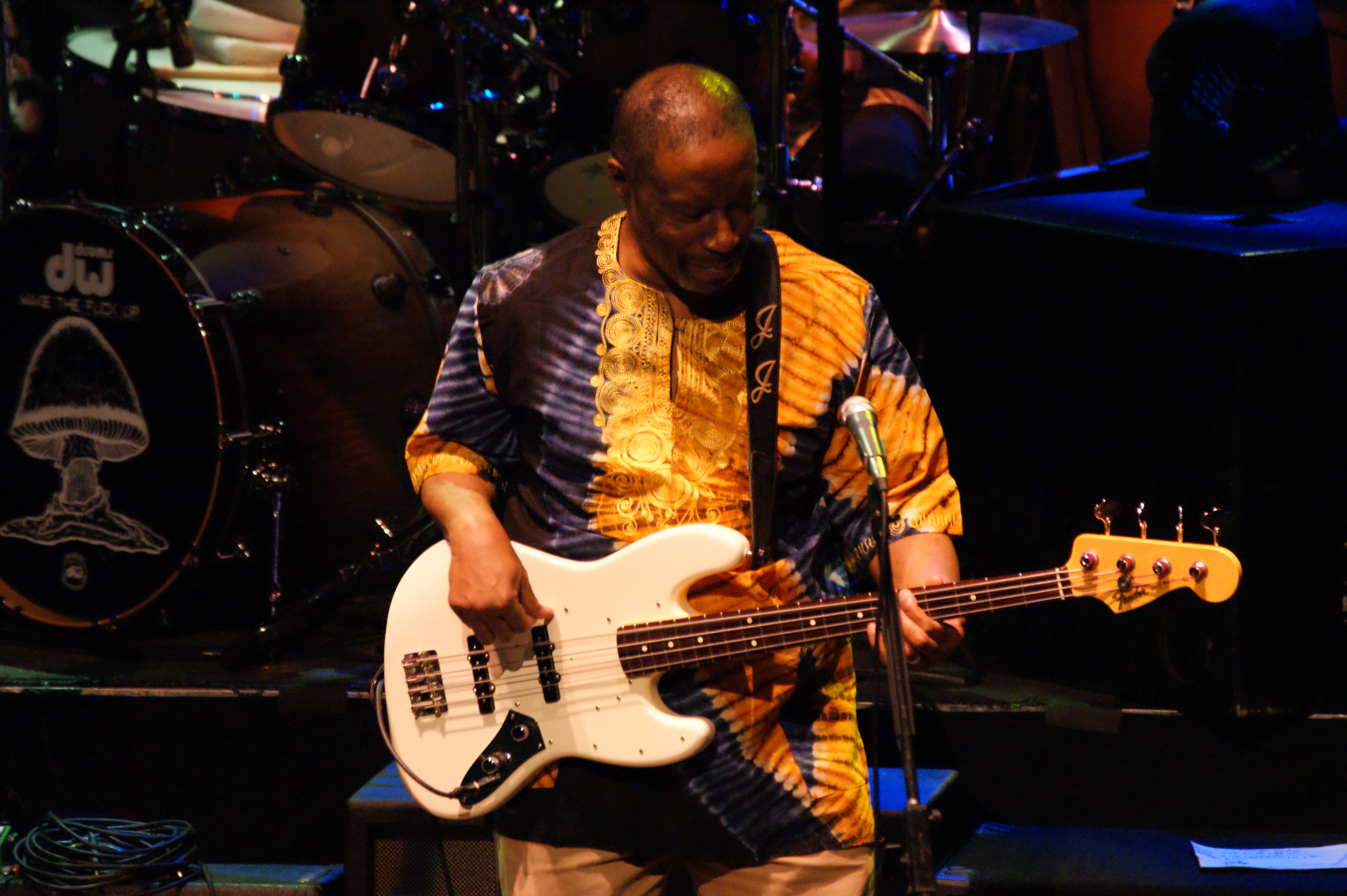 Jerry Jemmott, Beacon Theater, New York City March 23, 2009